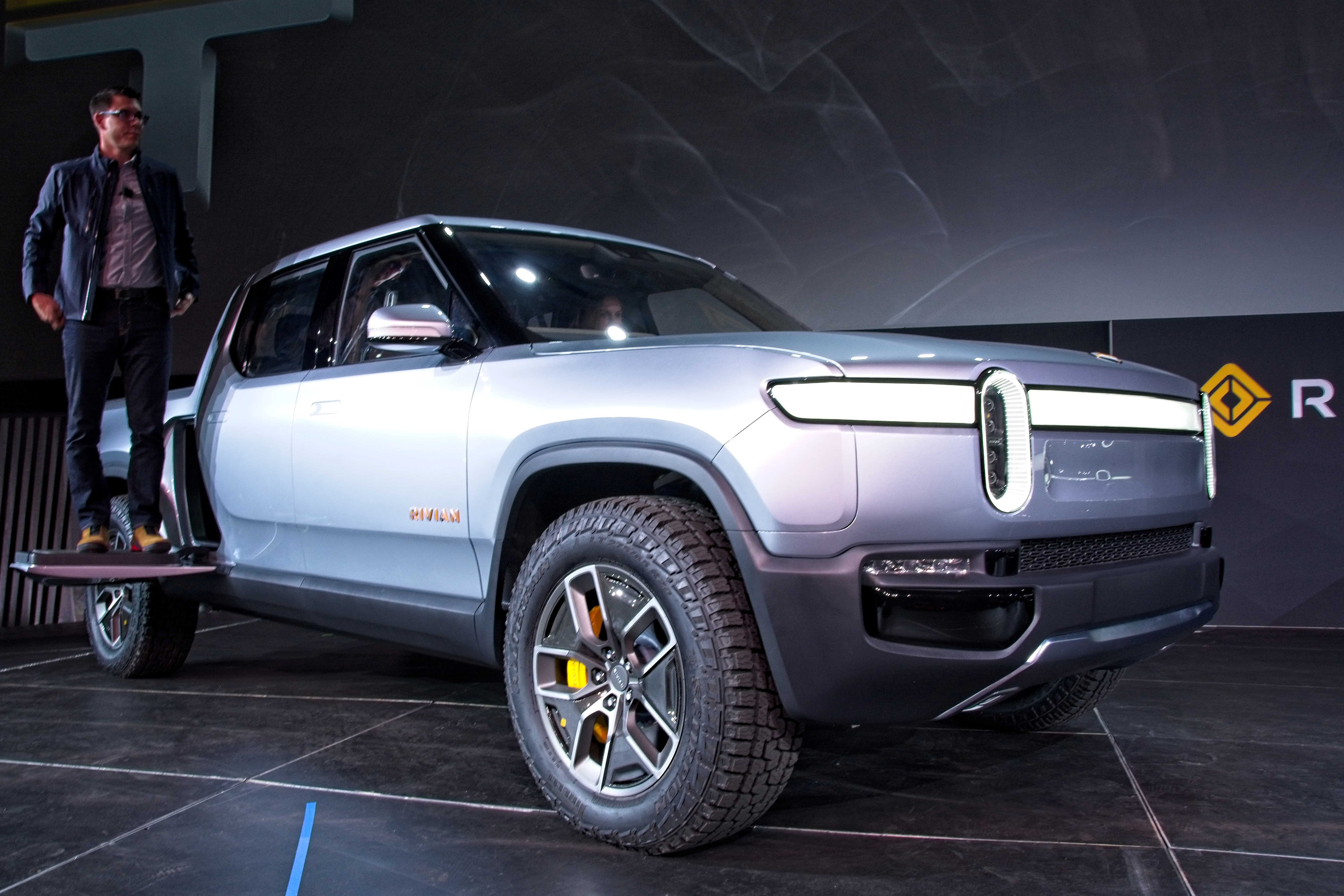 Rivian founder and CEO Robert "RJ" Scaringe standing on the side access panel at the debut of the Rivian R1T pickup at the 2018 Los Angeles Auto Show, November 27, 2018. if using this image